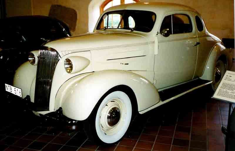 1937 Chevrolet Master Series GB Business Coupe